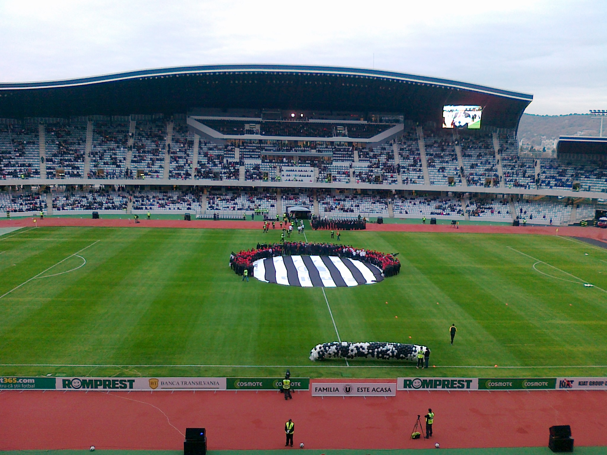 Panoramic view inside Cluj Arena at the inaugural game against Kuban Krasnodar